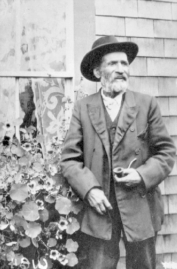 Photo taken 1930 Photograper Unknown BC Archives #G-09467 [1]